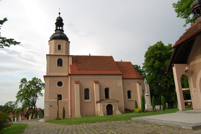 Dąbrowa - Saint Lawrence church